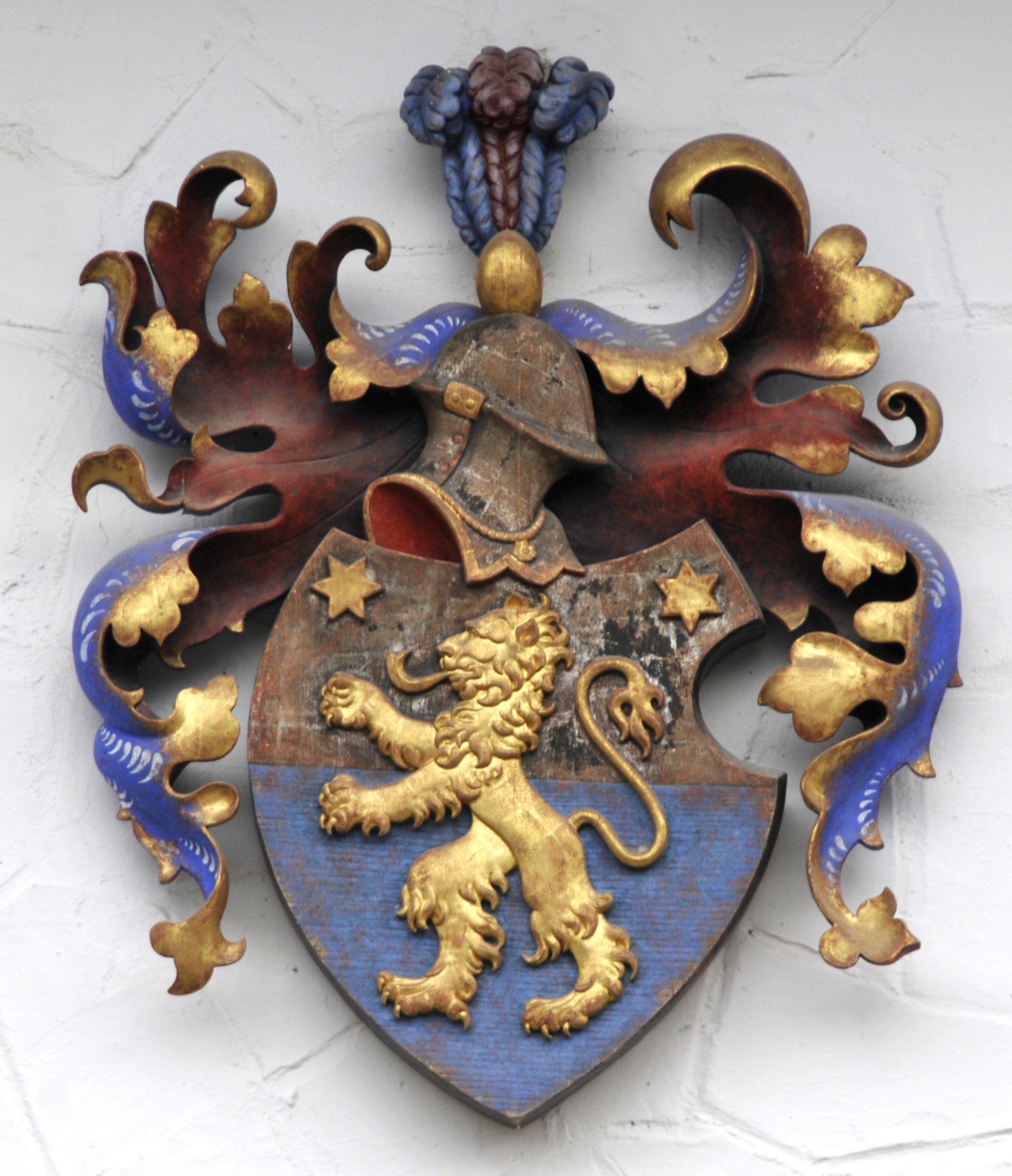 Coat of arms Moroder Family from Urtijëi